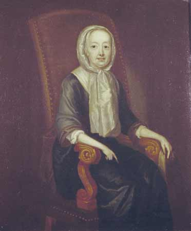 Hannah Callowhill Penn, by John Hesselius